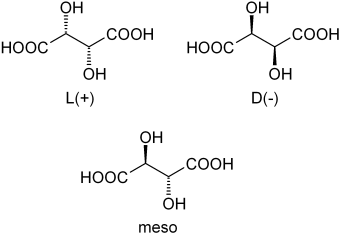 Chemical structures of the stereoisomers of tartaric acid